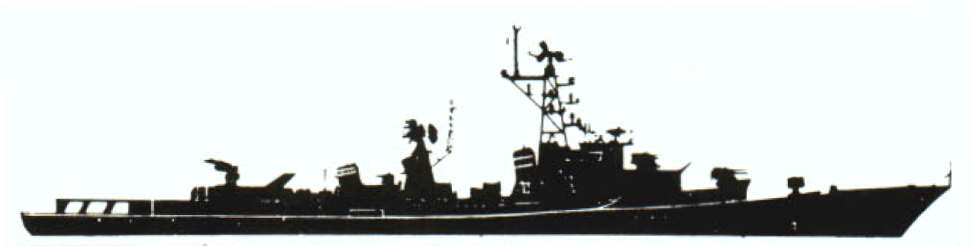 Profile of a Soviet Kanin-class (Project 57A Gnevnyy) guided missile destroyer.